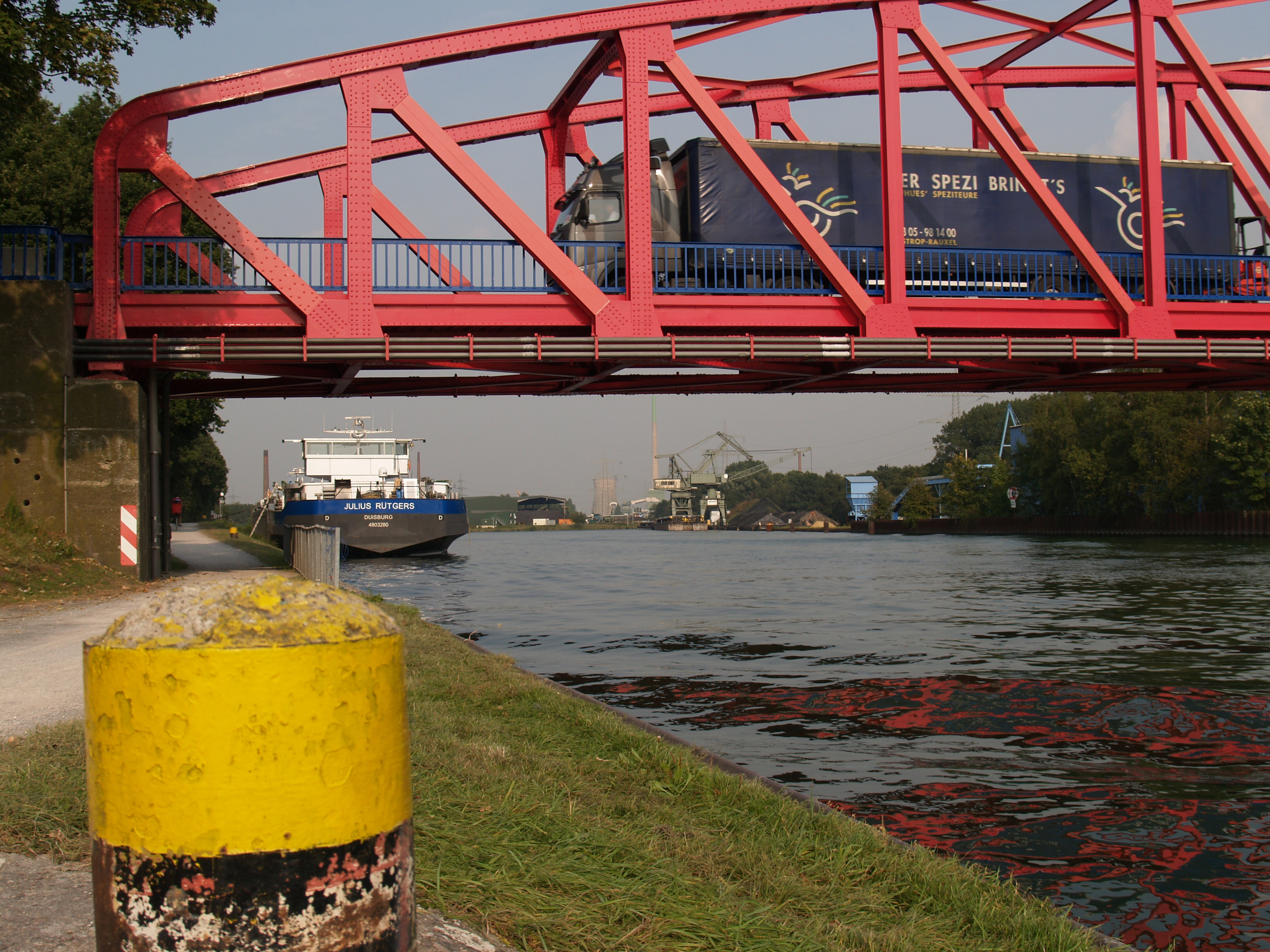 Port Victor at Rhein-Herne-Kanal